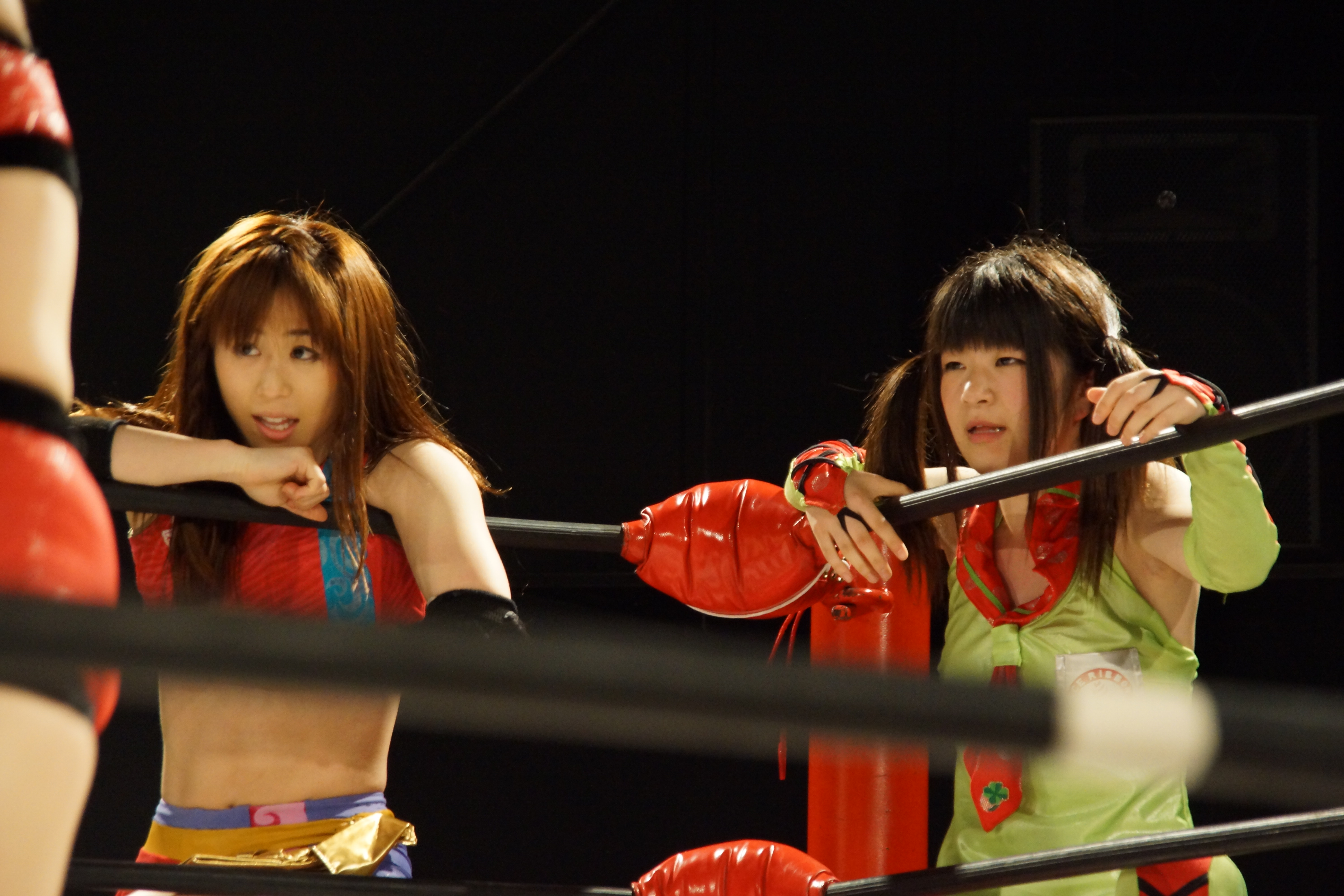 Professional wrestlers Tsukasa Fujimoto and Tsukushi, the "Dropkickers", at an Ice Ribbon event.